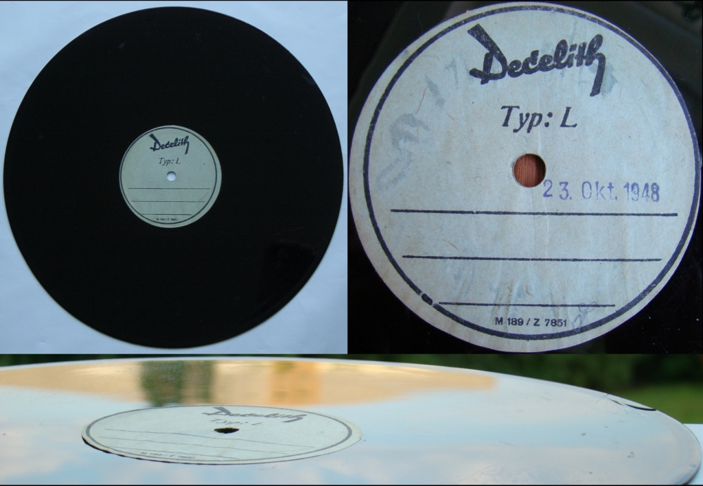 10-inch (25cm) gramophone record, flexible, brand and material "Decelith", blank and not used, for self recording, special surface with sign of old age, stamped with "23. Oktober 1948", possibly produced before or in the World War II.